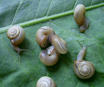 Равлик-монах паперовий Monacha cartusiana (Müller, 1774)